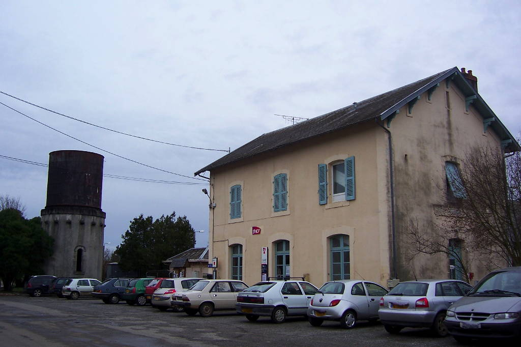 Outside view from the railway station of town Assier in France.